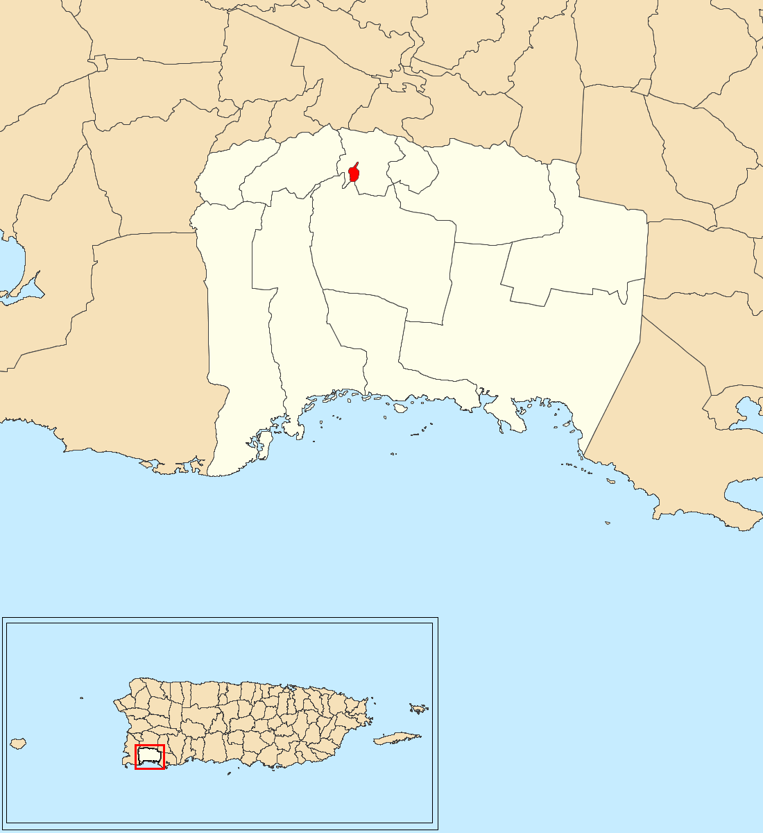 Lajas barrio-pueblo, Lajas, Puerto Rico locator map